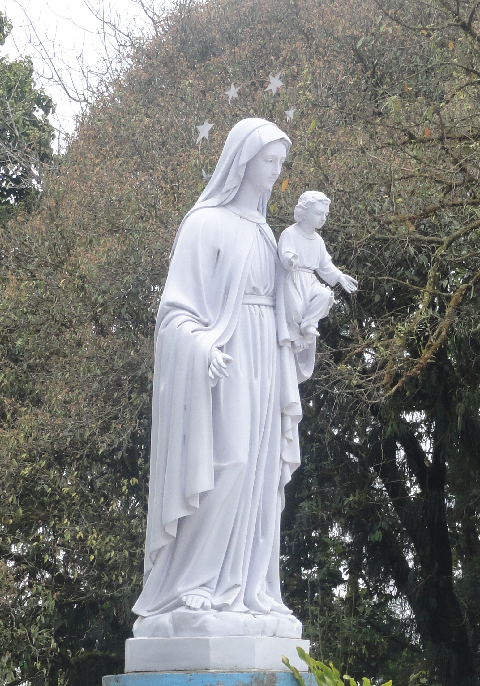 A statue of Our Lady of North Point on the campus of St. Joseph's school